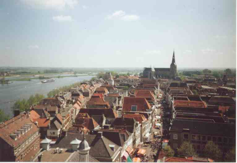 Overview of Kampen, a city bij the IJssel in the Netherlands